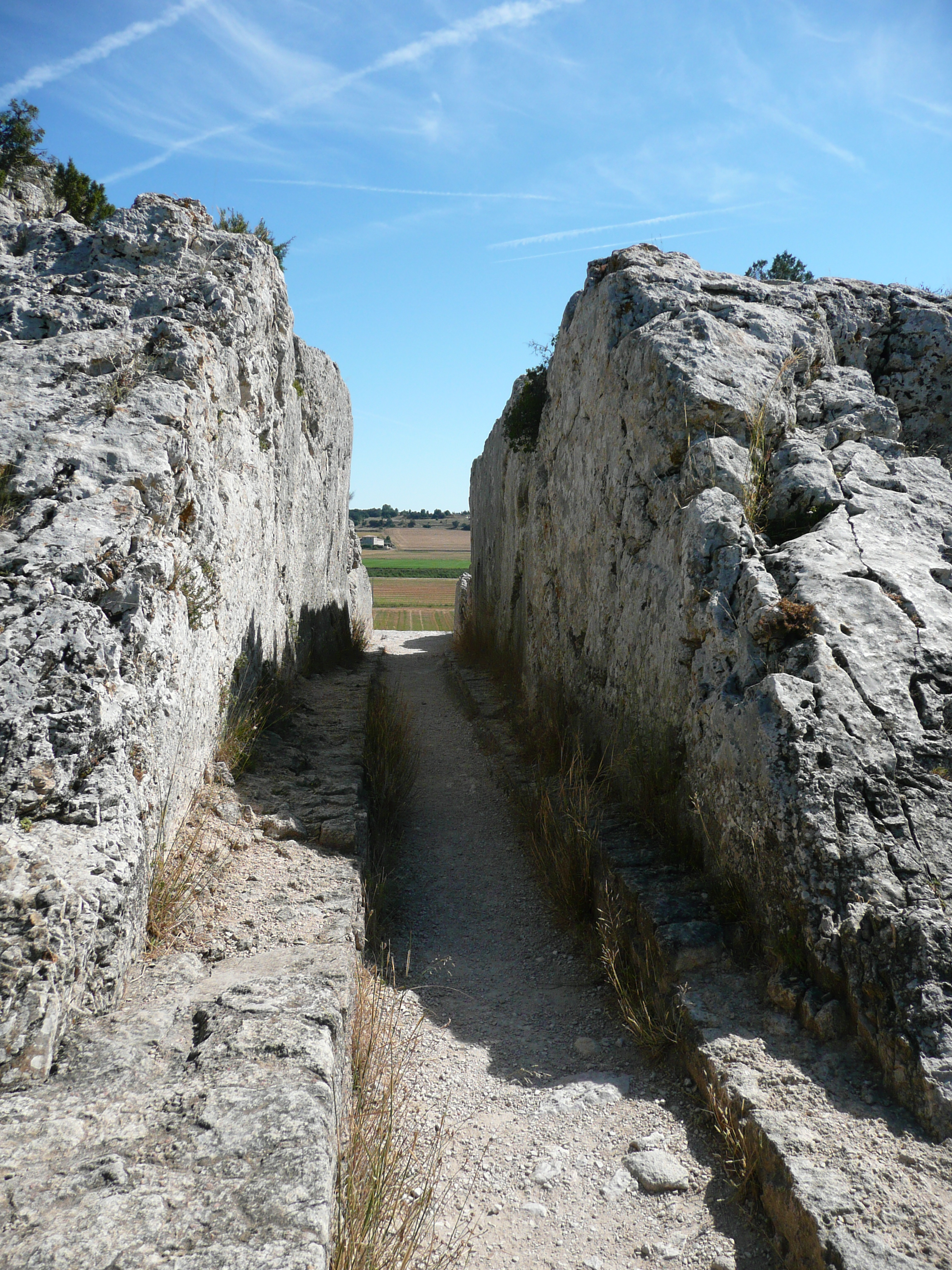 End of the aqueduct